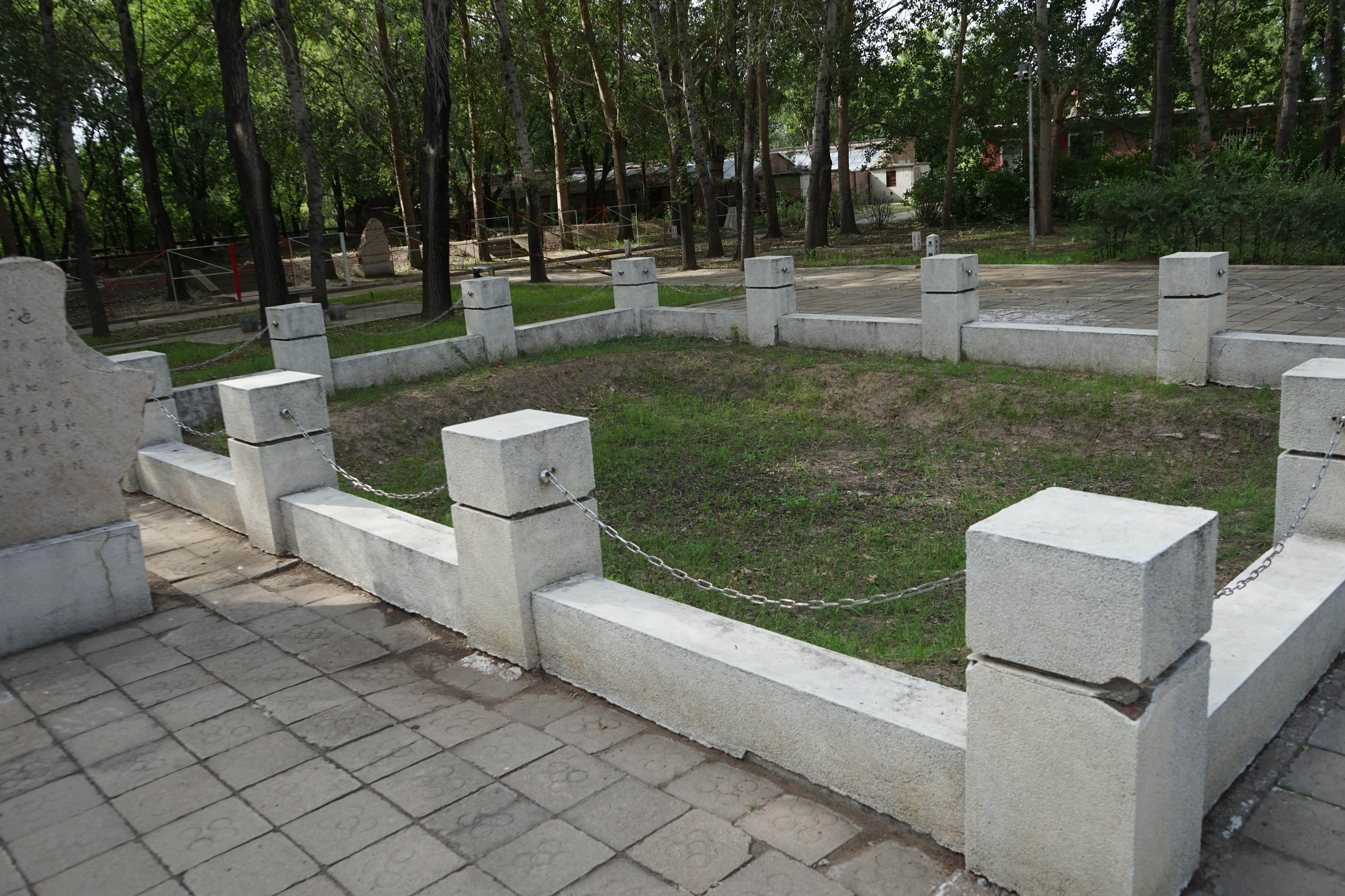 site of the mud pool Wang Jinxi and his collegues digges in more than 20 hours in bitter cold.